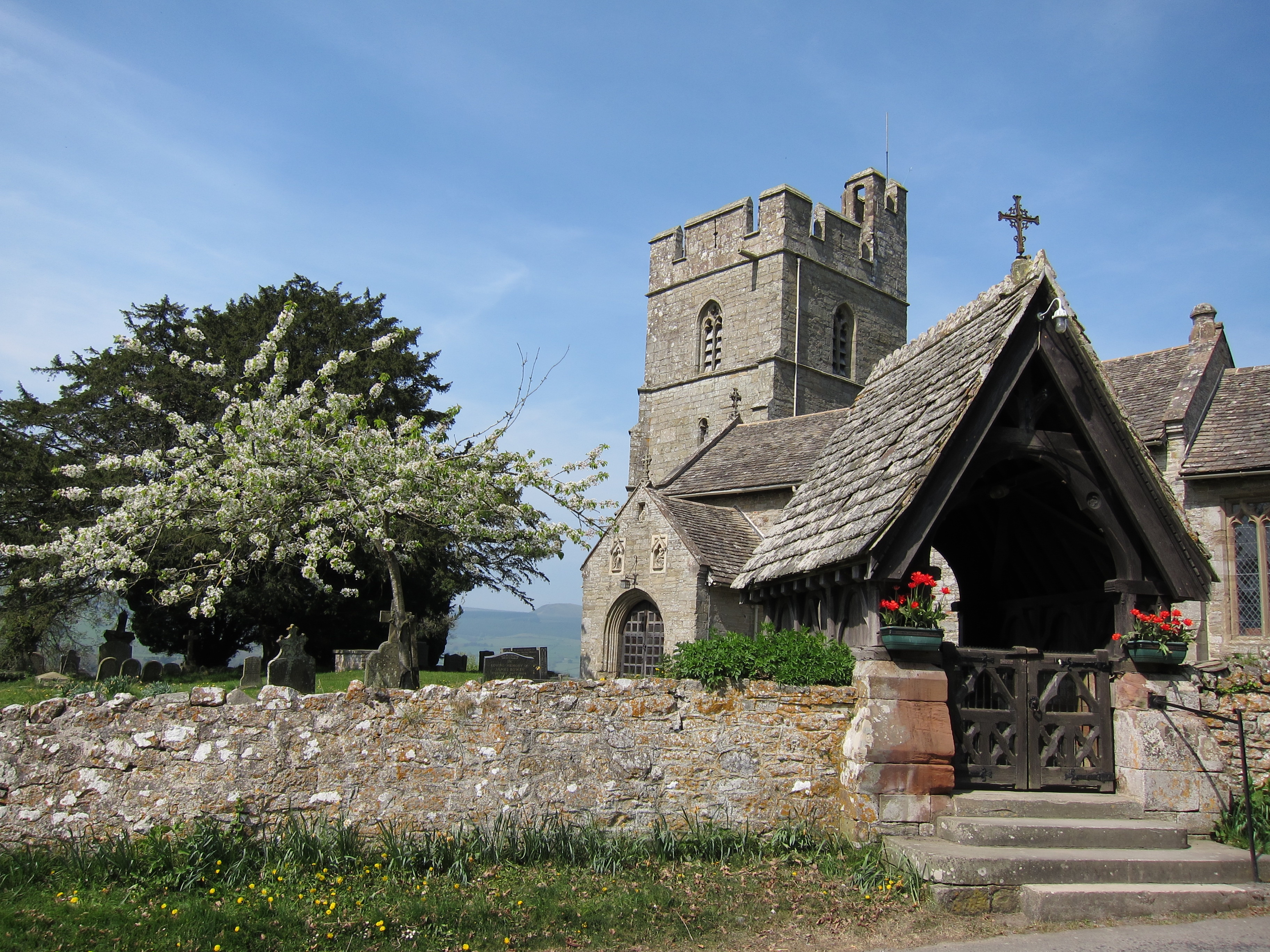 St Stephen's Church, Old Radnor with the tree in blossom.